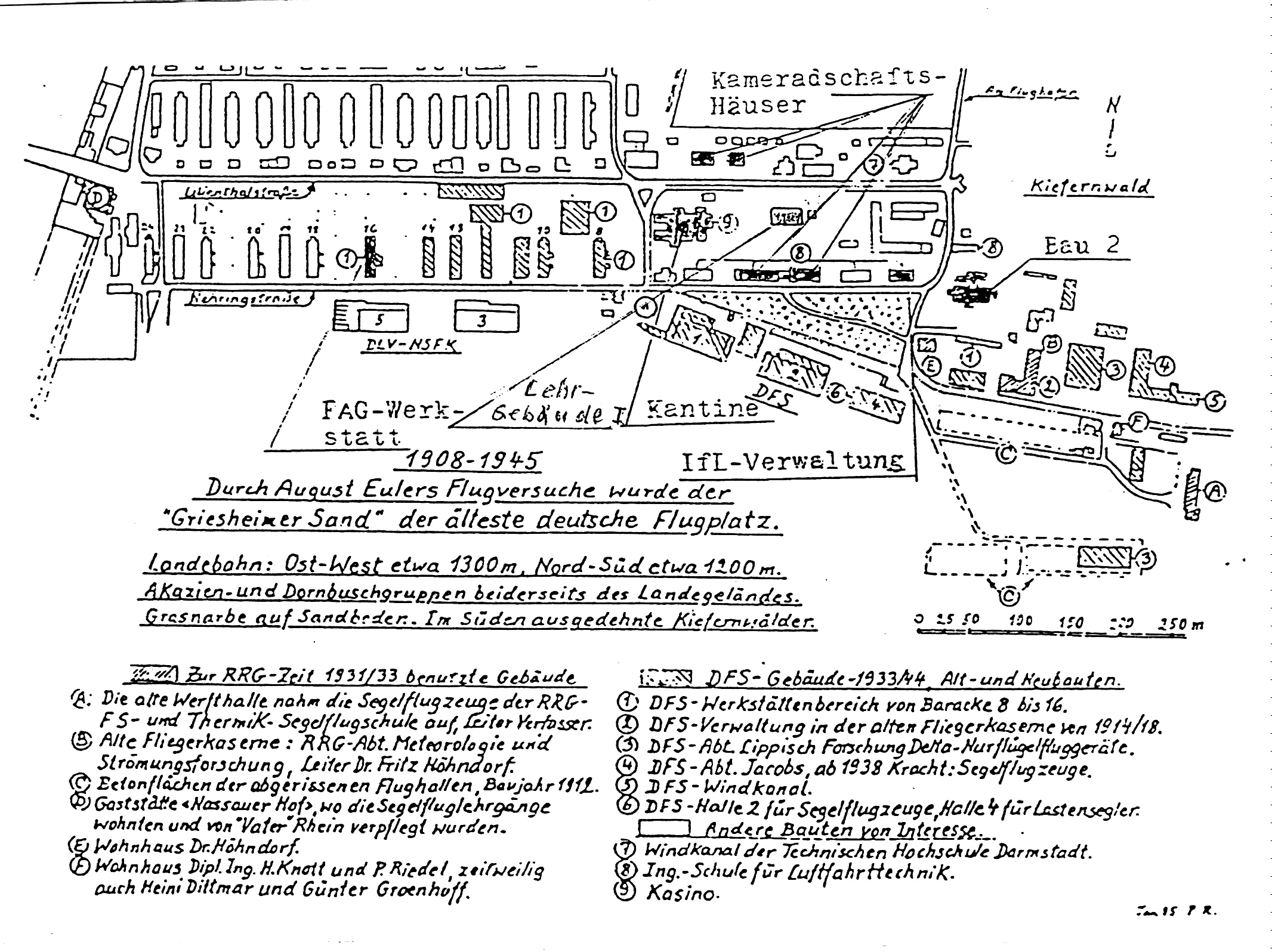 IfL facilities at the Griesheimer Sand (Darmstadt, Germany), 1937